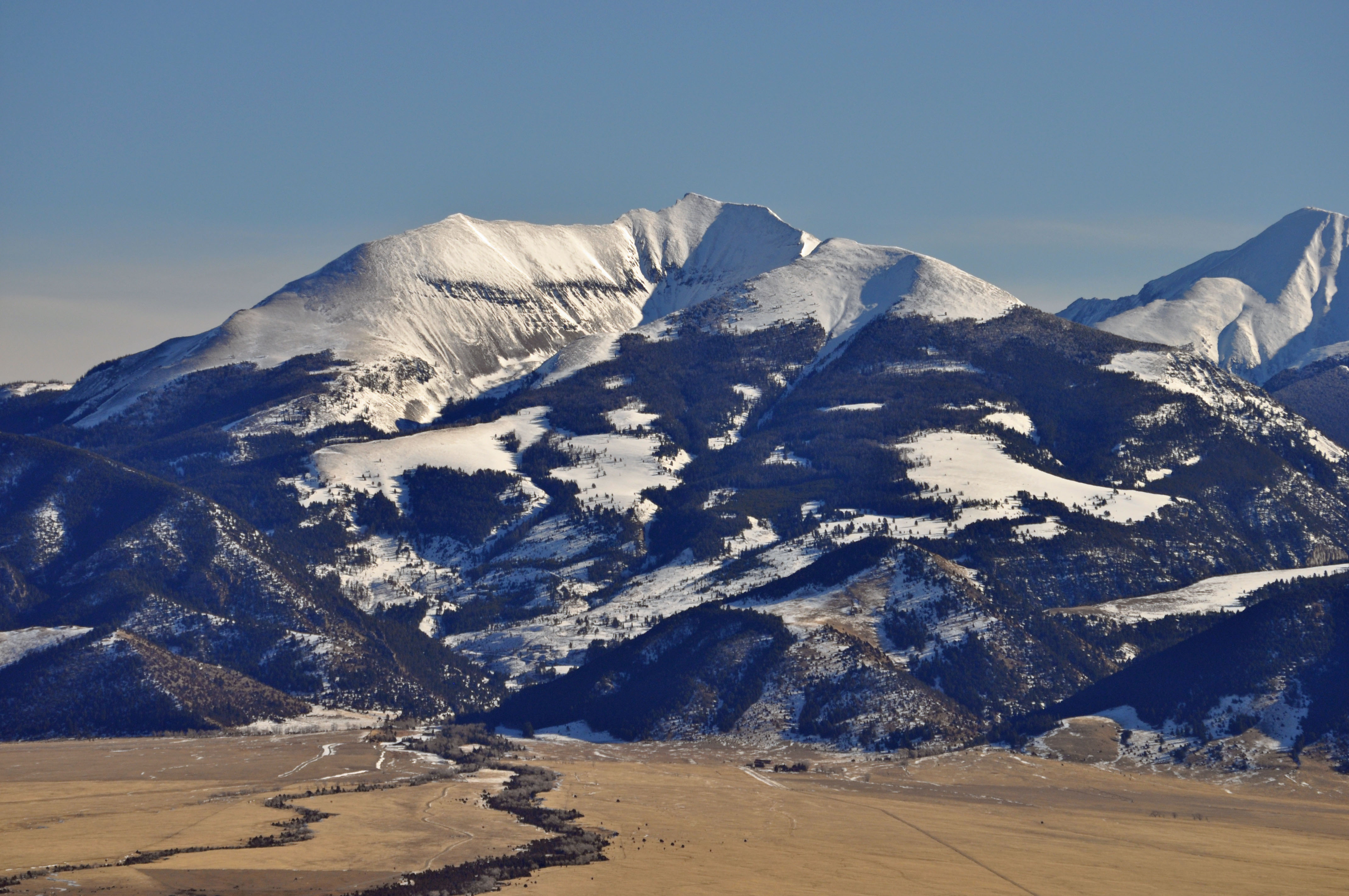 Fan Mountain, Madison Range, Madison County, Montana from Ennis, Montana January 2015